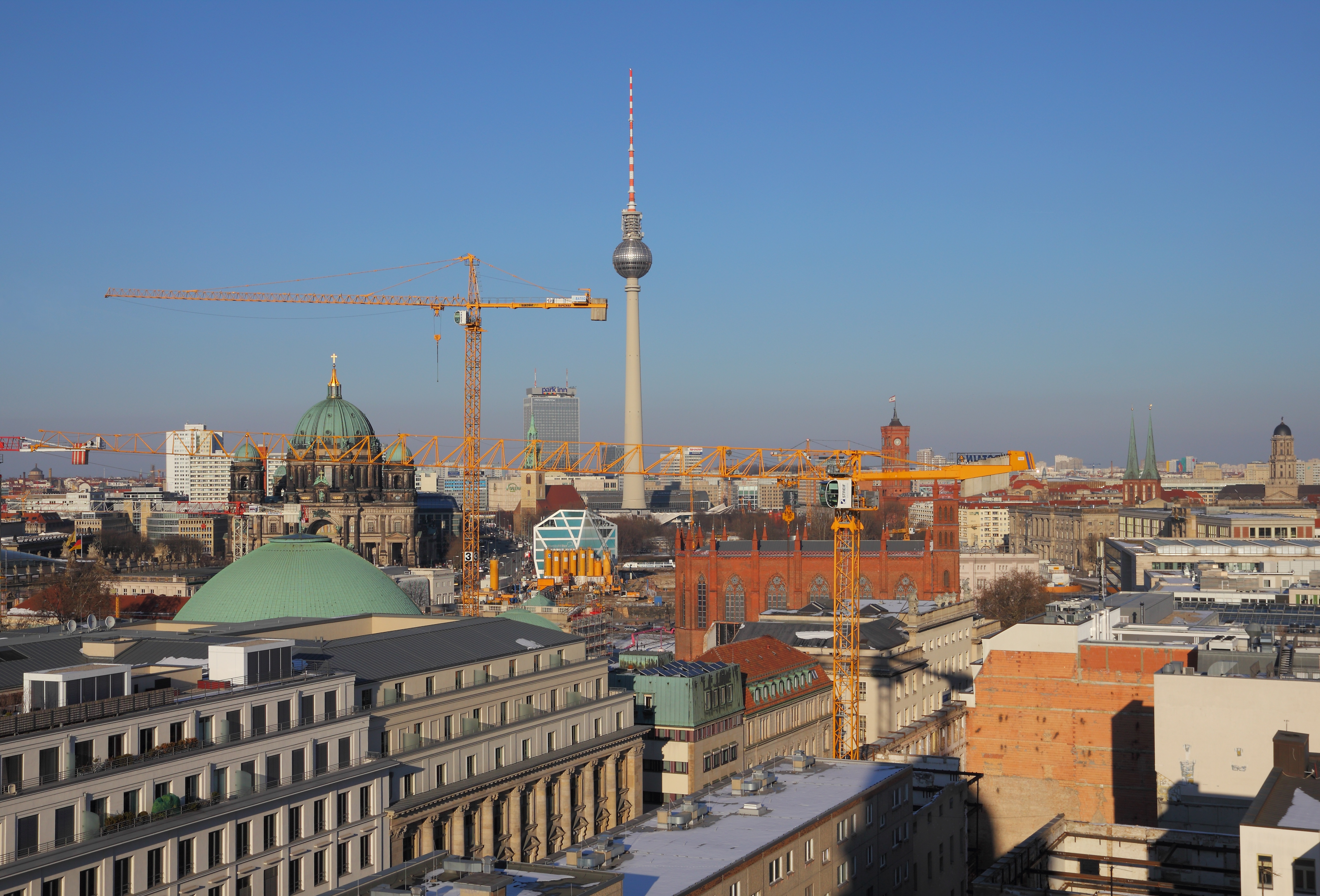 View of Berlin-Mitte from the French Cathedral (Berlin-Mitte, Gendarmenmarkt).